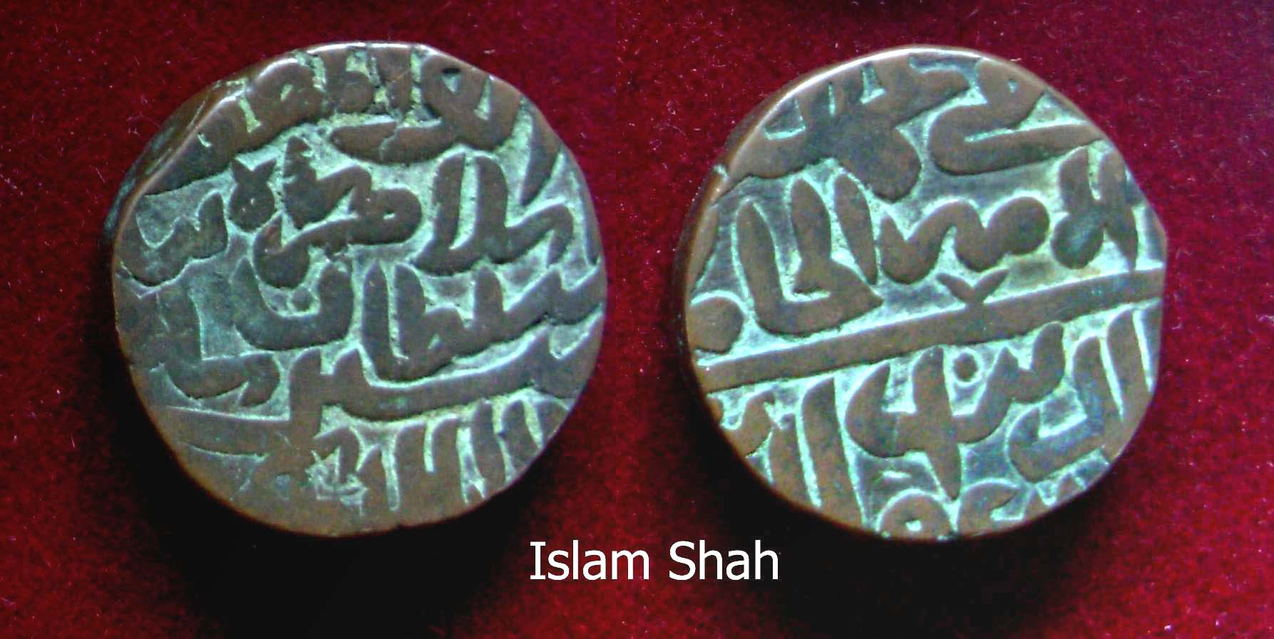 A copper coin of Islam Shah from personal collection cabinet.